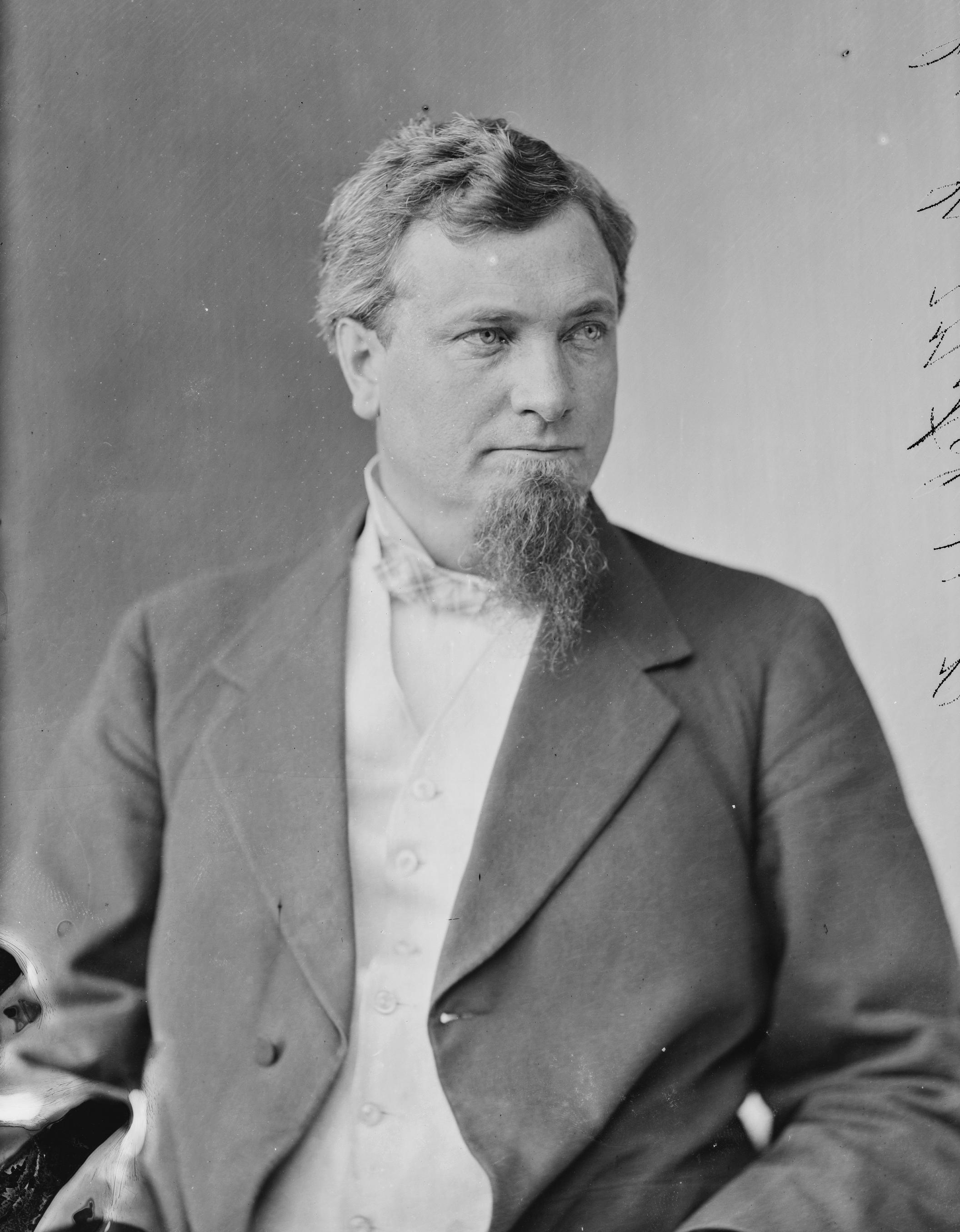 John I. Mitchell. Library of Congress description: "Mitchell, Hon. John I? of Pa.".